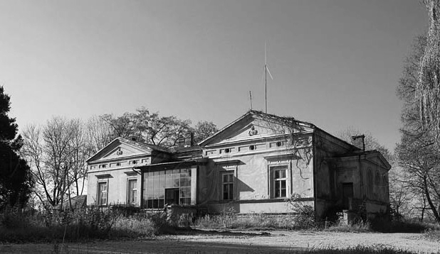 Radlna eclectic mansion, builded about 1880 year. for Joseph Wykowski, twice rebuilt.